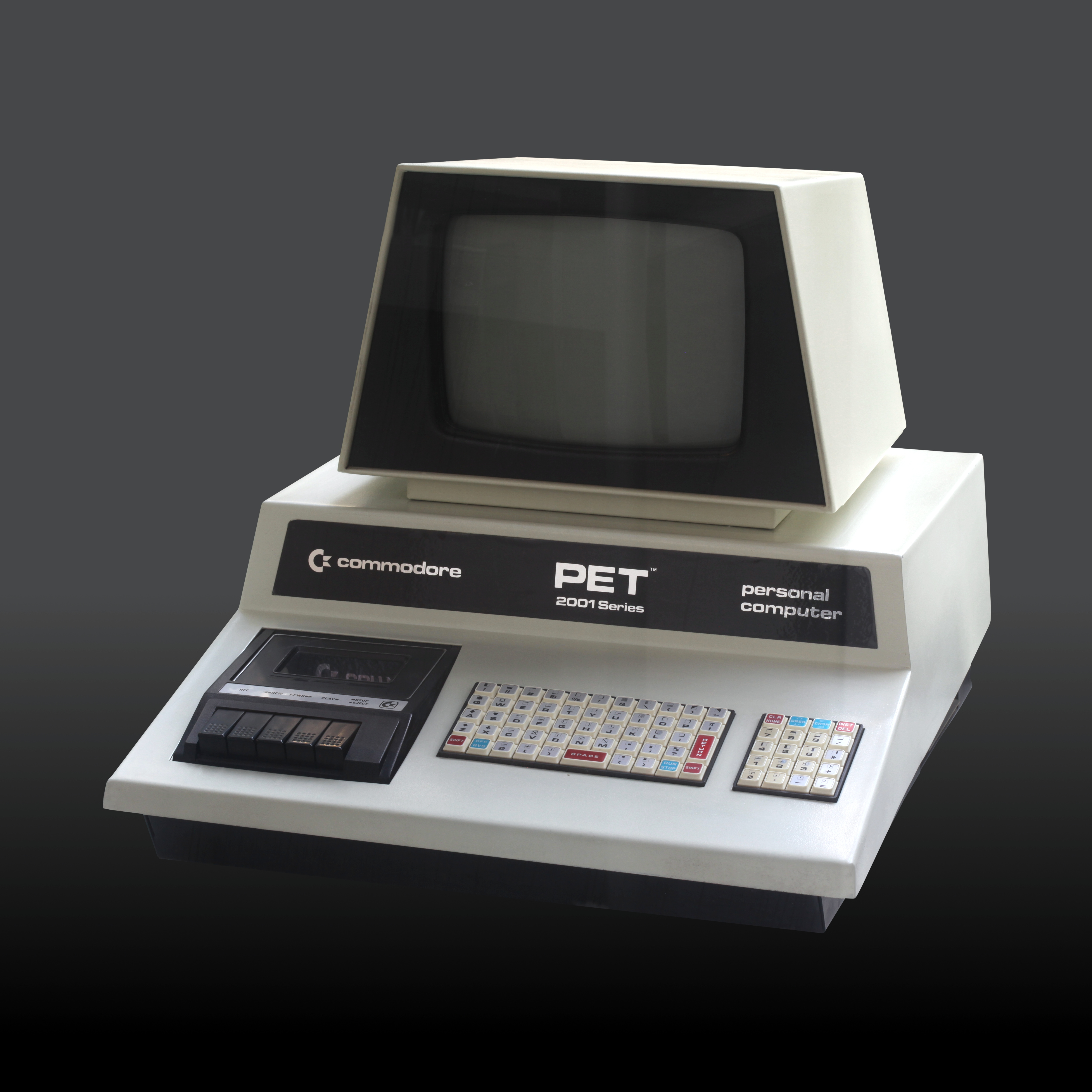 Commodore PET 2001 computer. On display at the Musée Bolo, EPFL, Lausanne. The making of this document was supported by Wikimedia CH. (Submit your project!) For all the files concerned, please see the category Supported by Wikimedia CH.